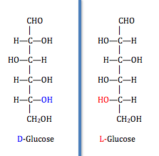 D-Glucose and L-Glucose are enantiomers because they are mirror images of each other and are not superimposable on one another.